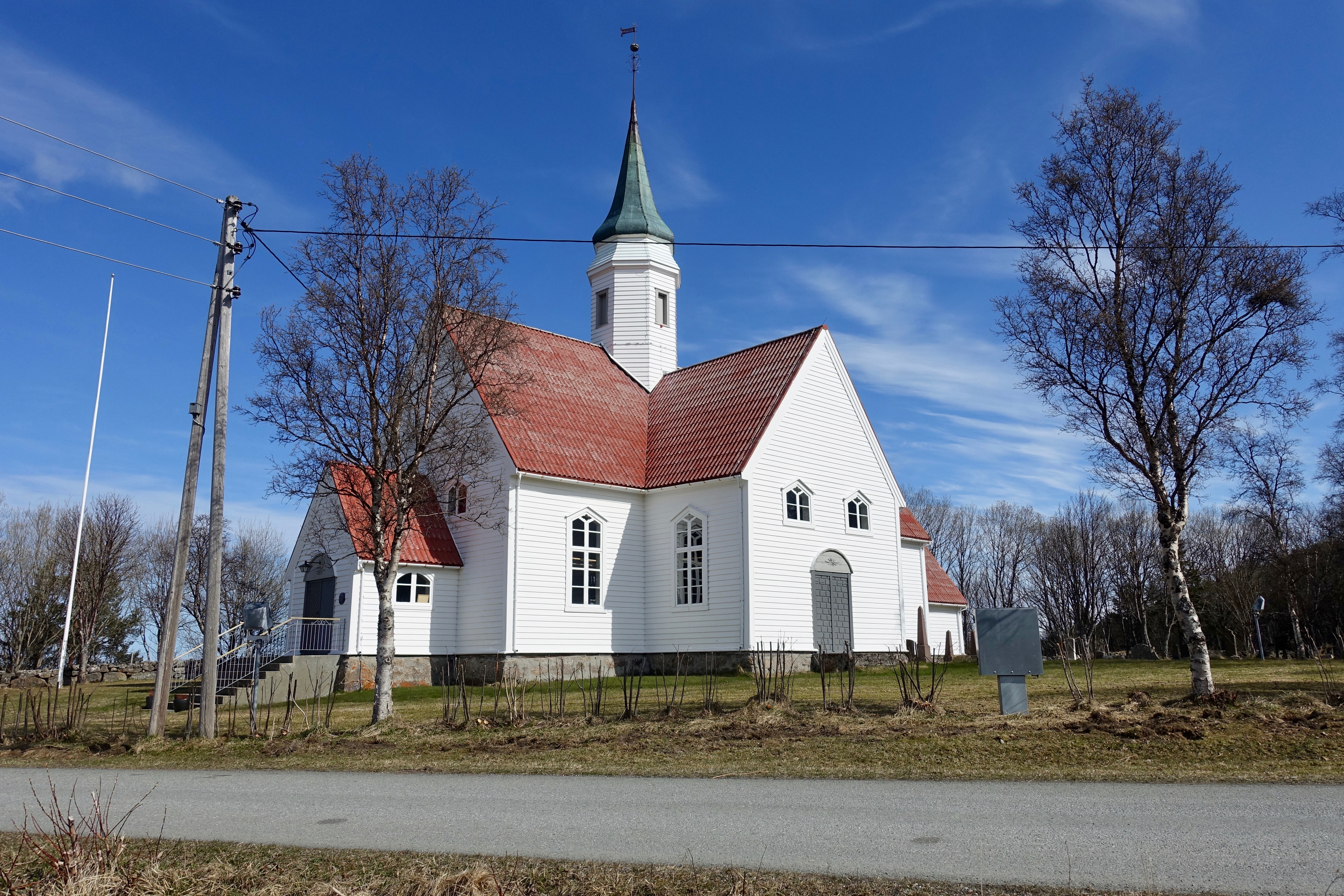 Bjarkøy Church (Bjarkøy kirke), a parish church of the Church of Norway in Harstad Municipality in Troms county, Norway. It is located in the village of Nergården on the island of Bjarkøya. The church was bulit in 1766 (rebuilt 1886). The photo shows the church building, naked birch trees, church yard, etc. in springtime of Northern Norway. iPhone photo taken on May 9th, 2019.